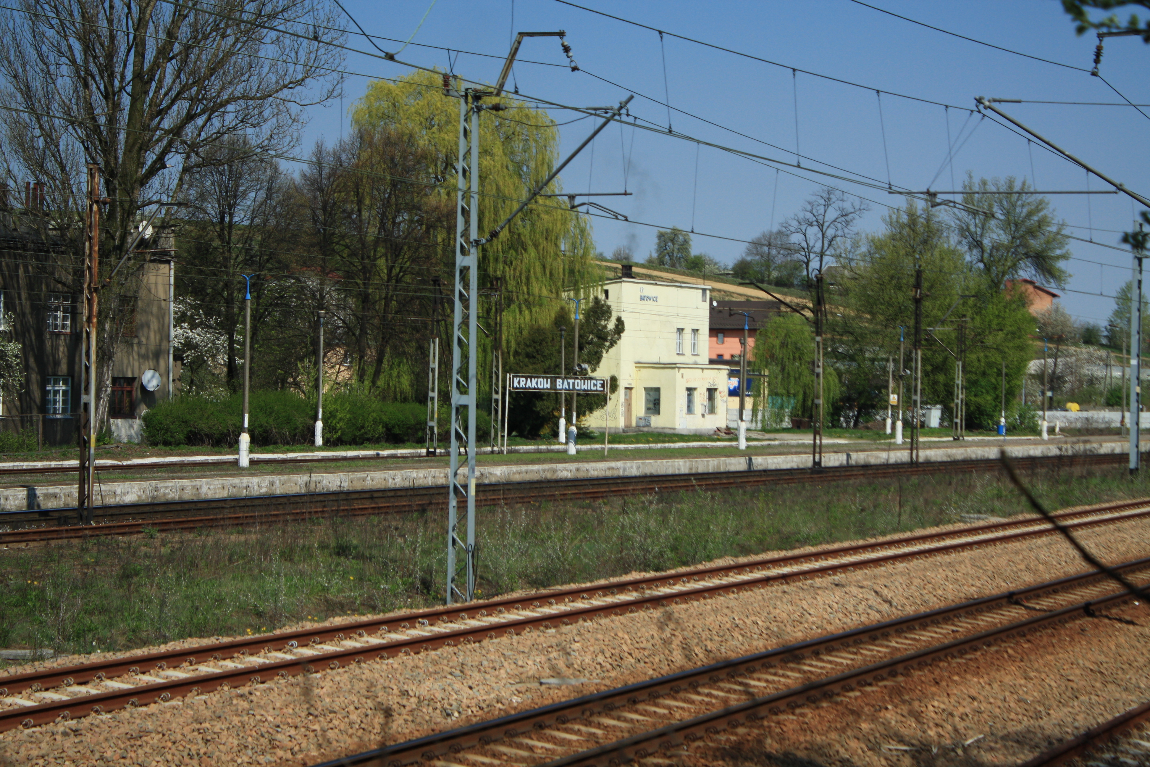 Train station Kraków Batowice